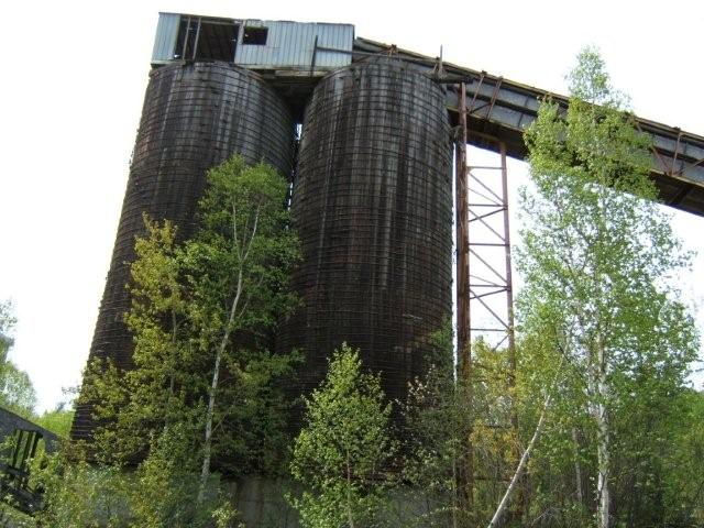 A silo-like building at Kanichee Mine in Temagami, Ontario.